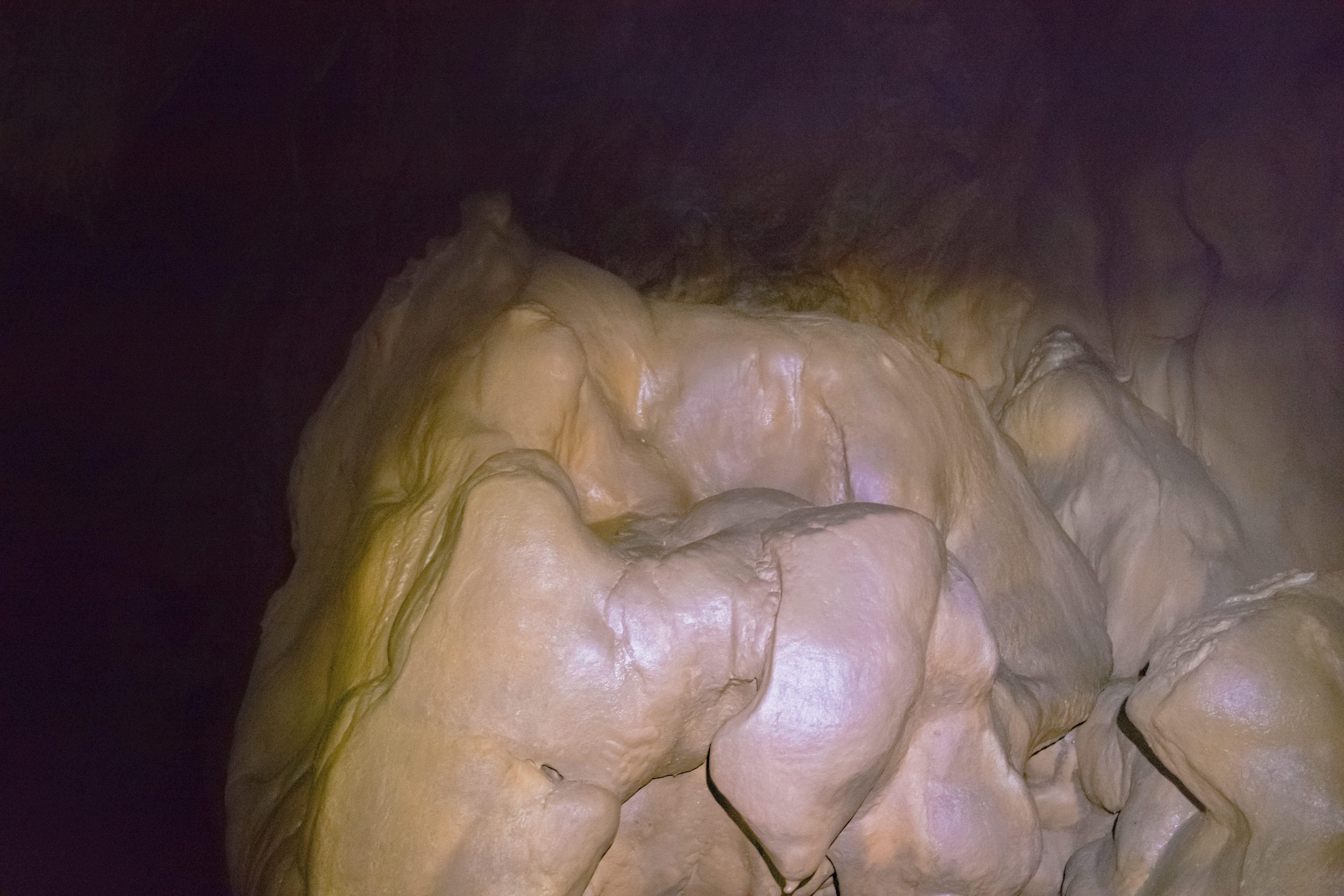 flowstones called as Gyokuza ("the throne") in Kawachi no Kaza-ana.